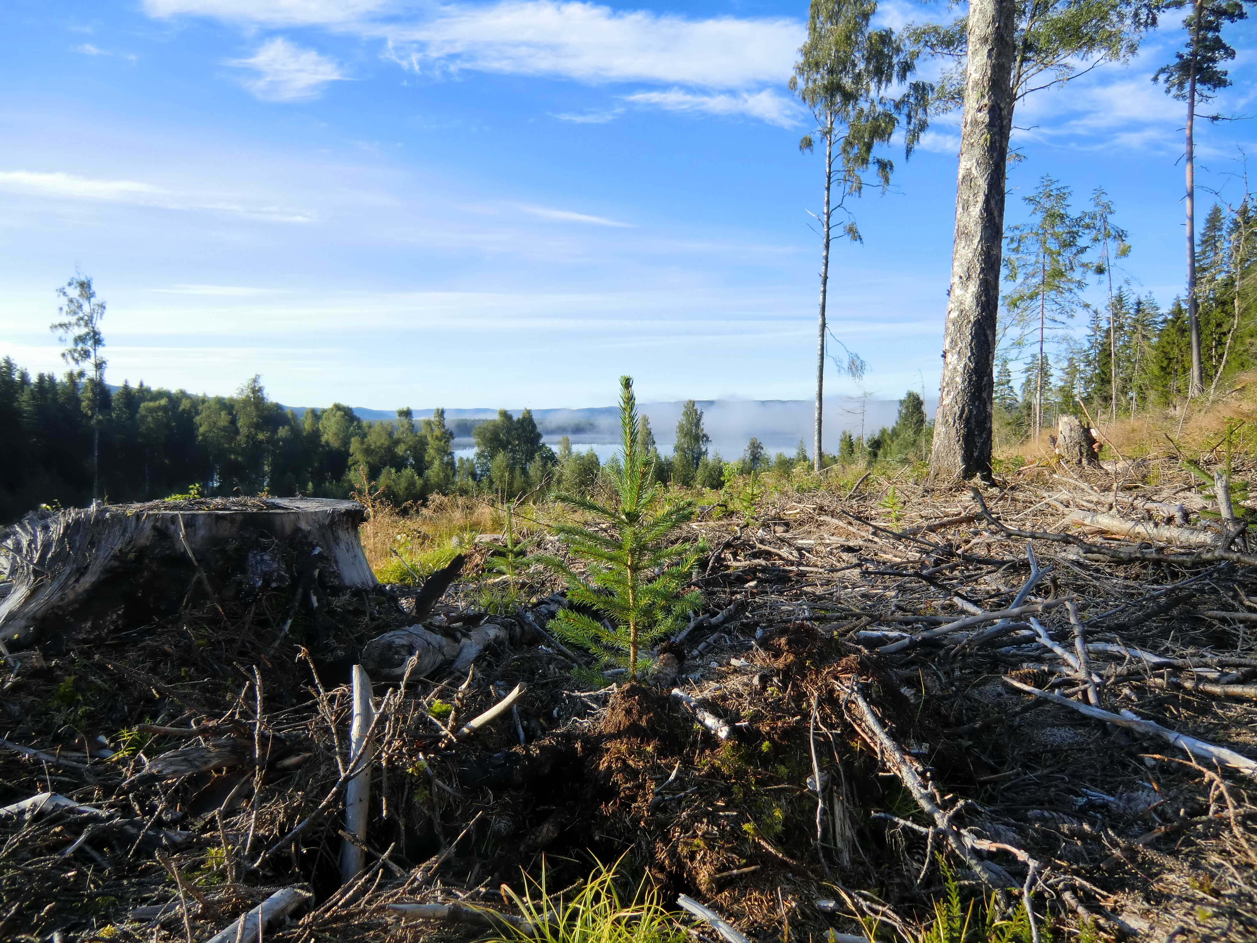 (Picea abies) in Värmland, Sweden.